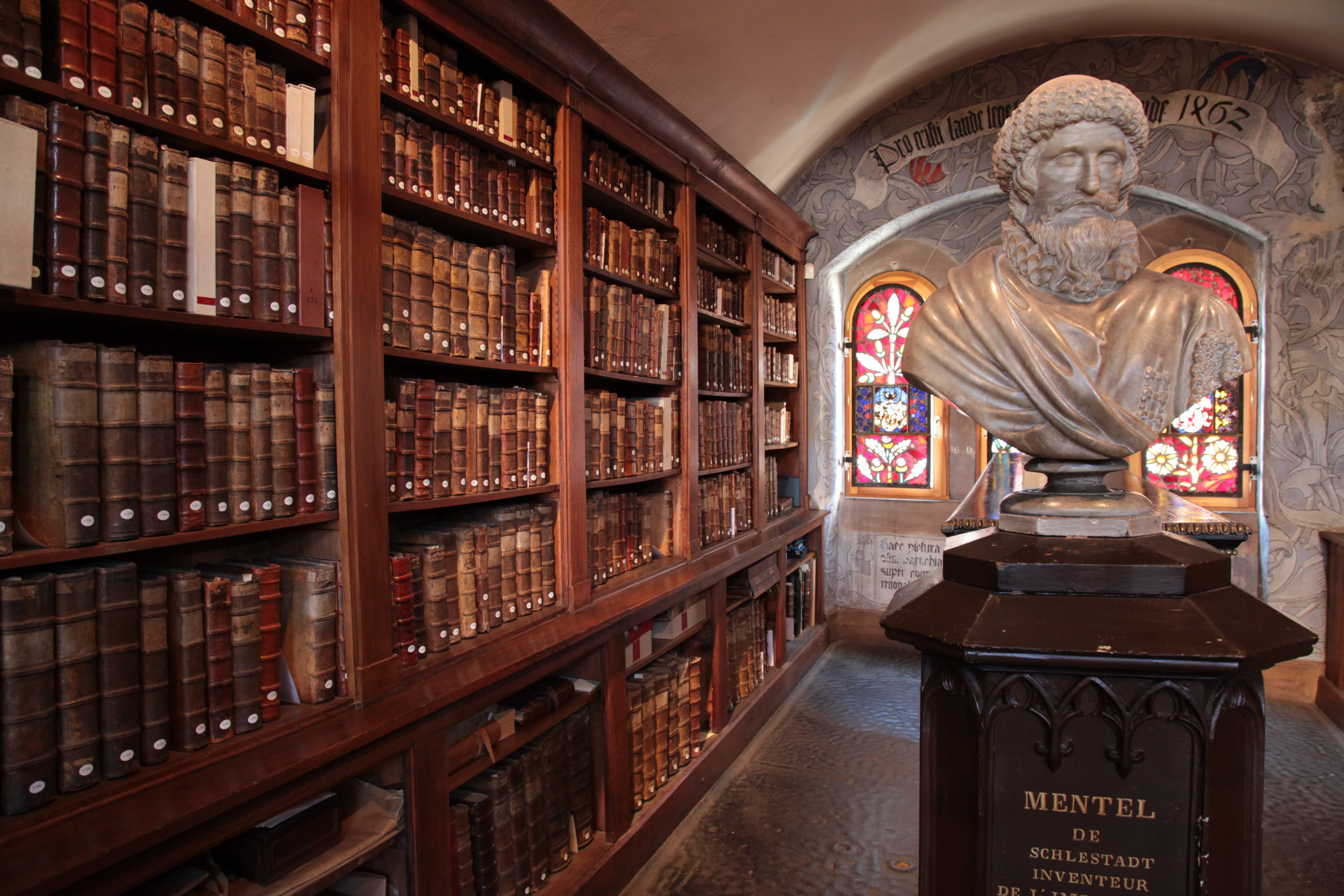 La bibliothèque de Beatus Rhenanus / Library of Beatus Rhenanus. He gave his library in 1547 to Sélestat and you can still see the complete library.